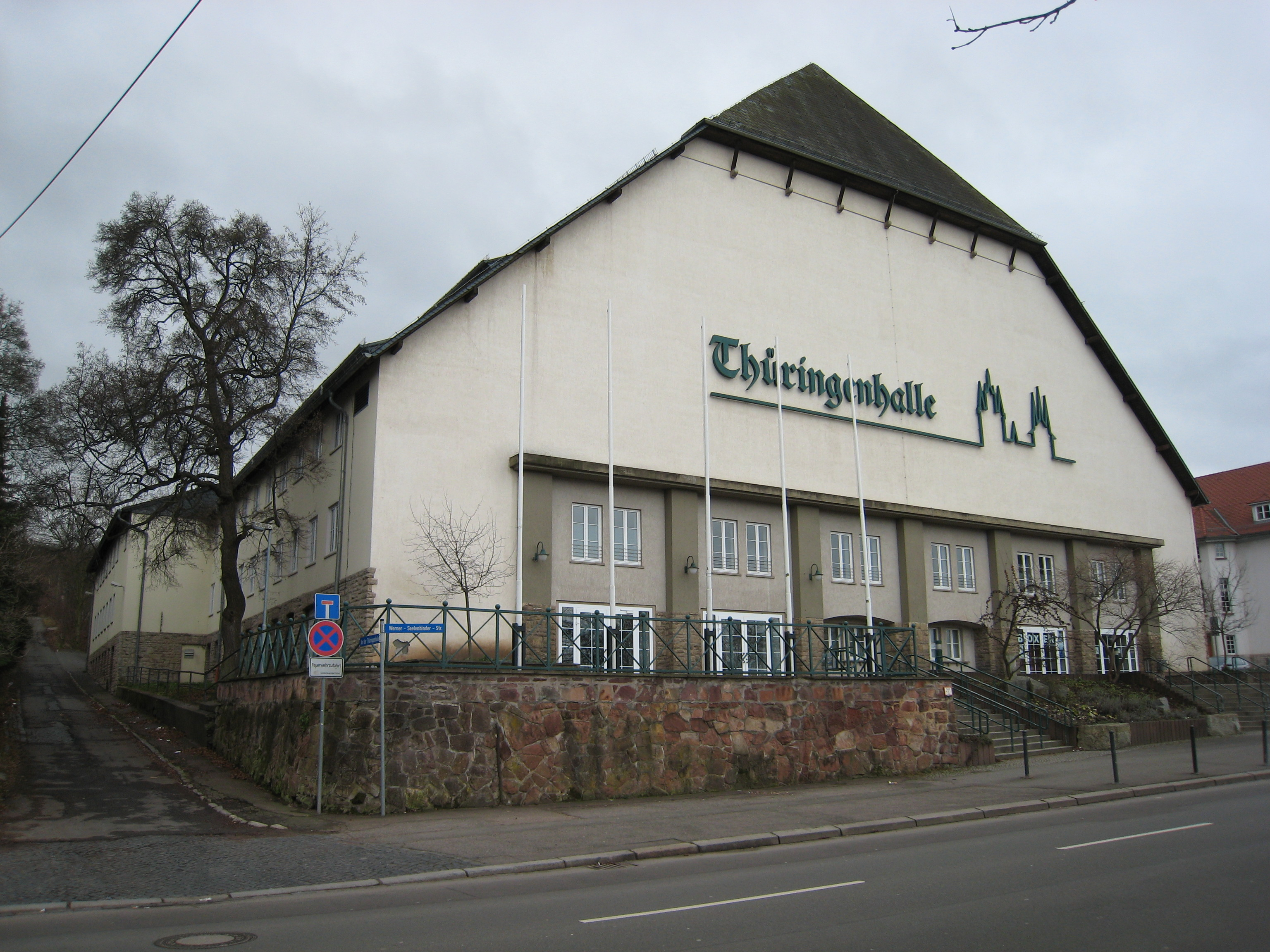 Thüringen hall Erfurt